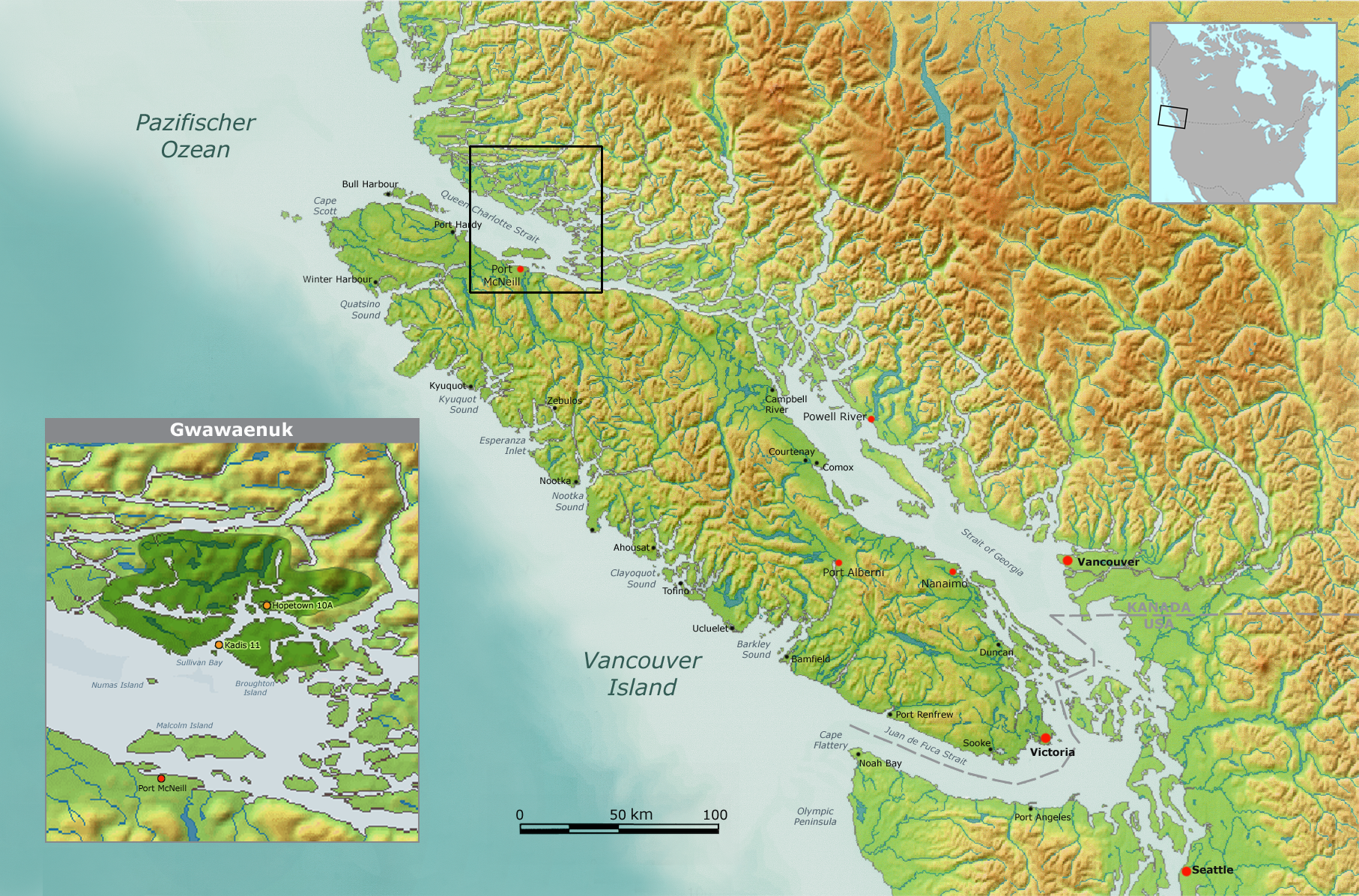 Map of Gwawaenuk Tribe tribal territory